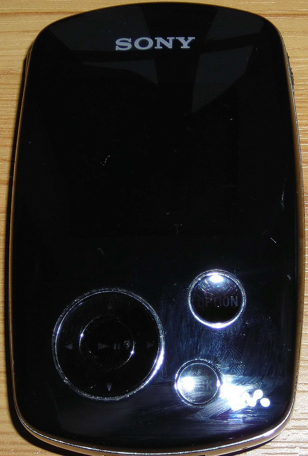 Own work, picture taken on 31st October 2006 of Sony NW-A1000 6GB MP3 Player. Anybody is allowed to copy and edit this picture without permission.